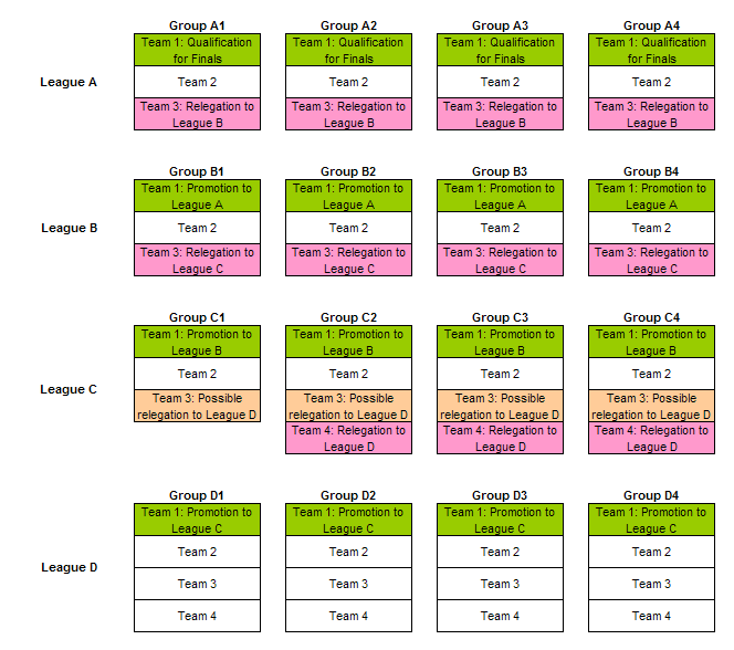 Diagram showing format of 2018-19 UEFA Nations League